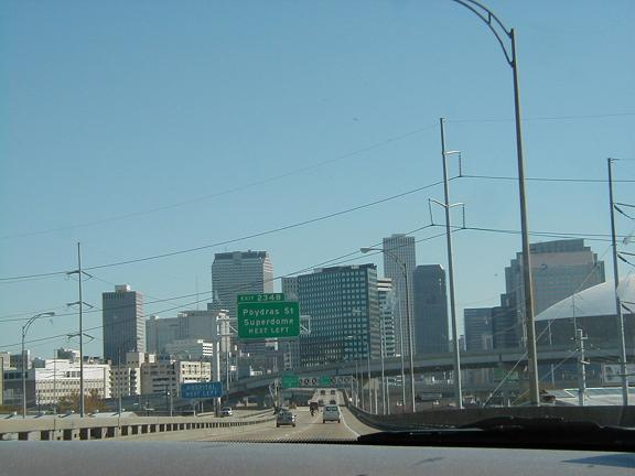 I-10 Exit 234 in New Orleans, Louisiana